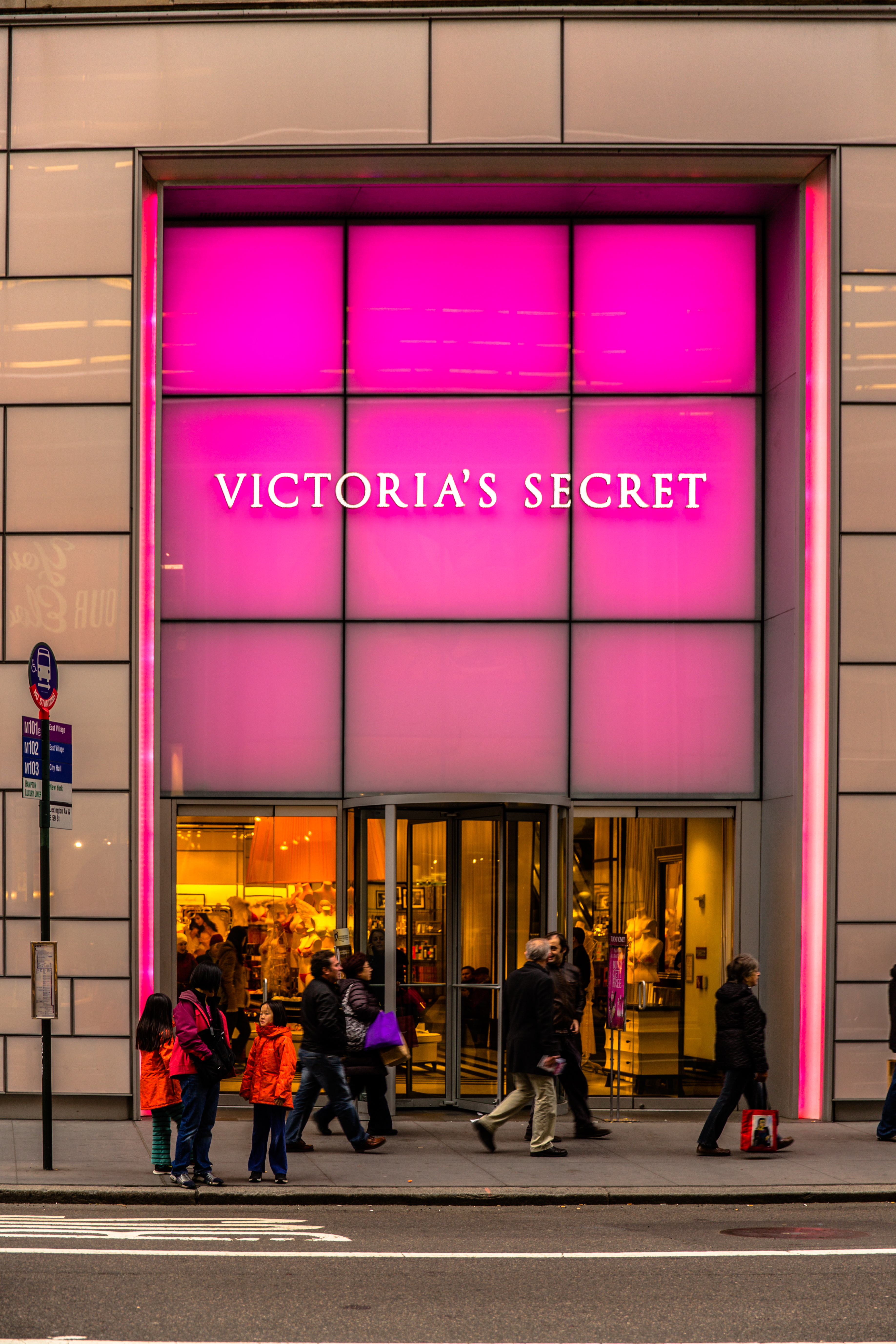 Victoria's Secret Store, 722 Lexington Ave, New York, NY 10022, USA - Dec 2012